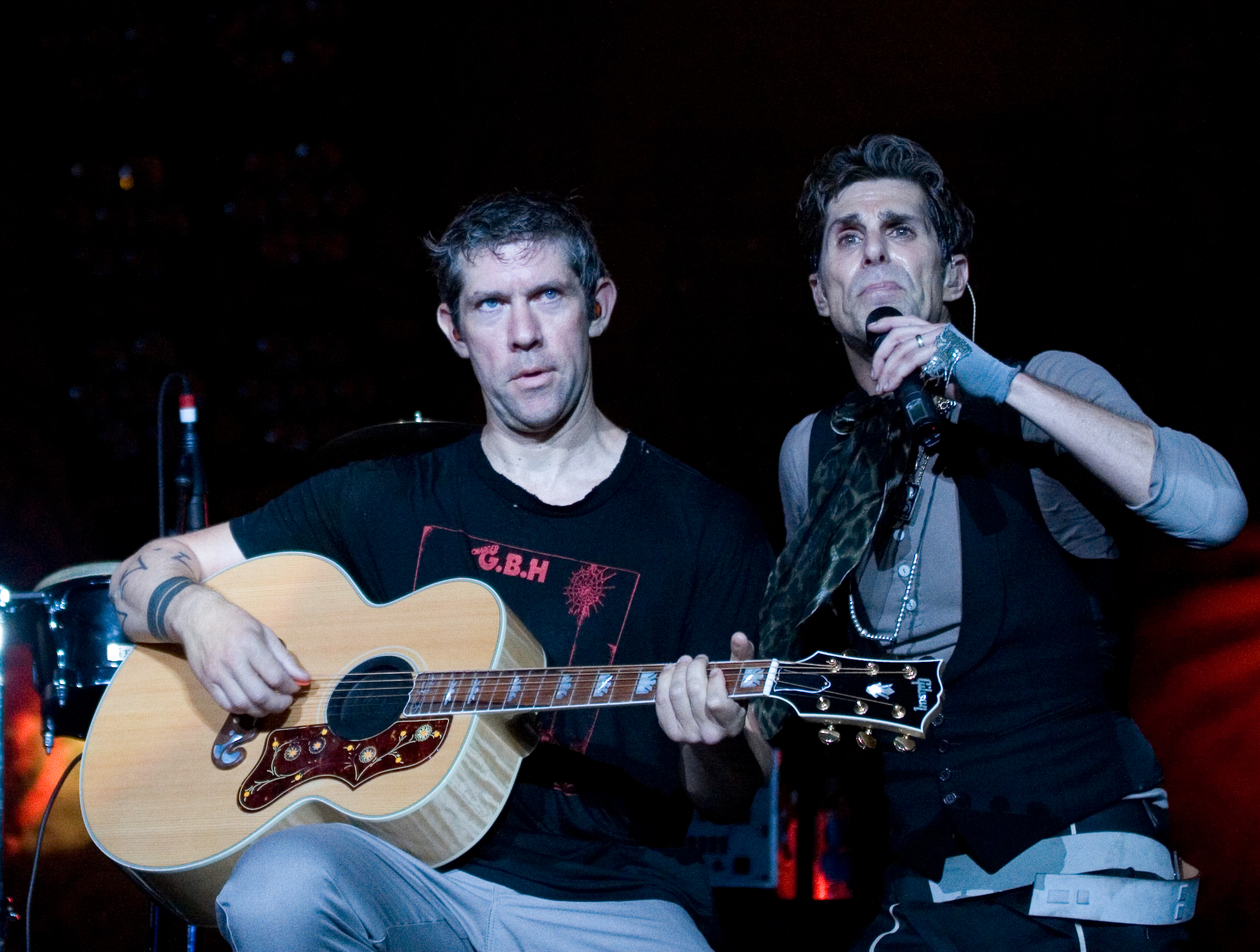 Eric Avery and Perry Farrell of Jane's Addiction, Chula Vista 2009 (image shot by Fiona Bowie (gebgdc))